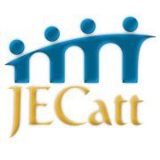 JECatt